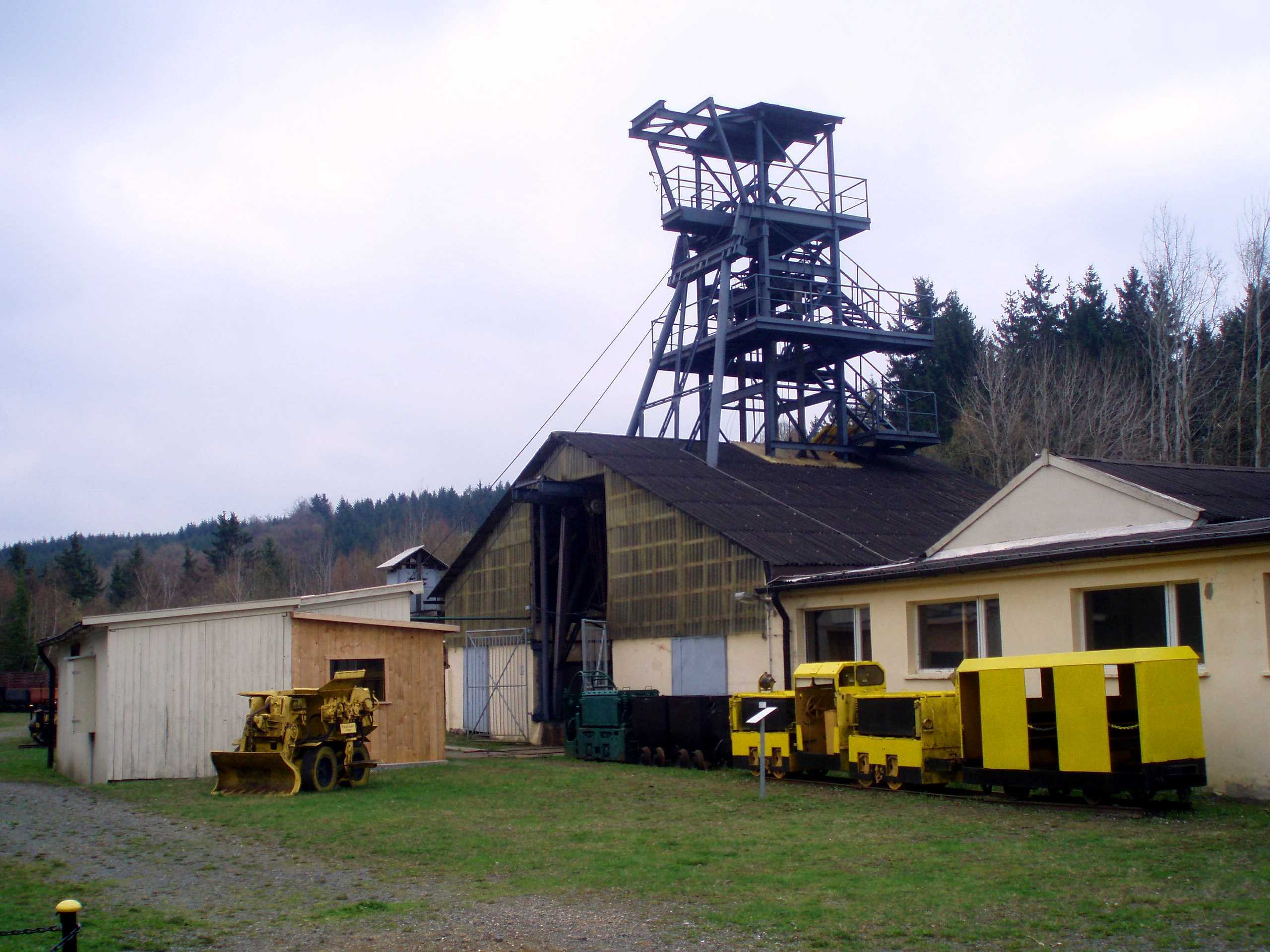 Betrieb für Bergbauausrüstungen Aue (Mining equipment factory Aue) double-tender mining locomotive EL 61. Glasebach mine, Straßburg, Saxony-Anhalt, Germany.